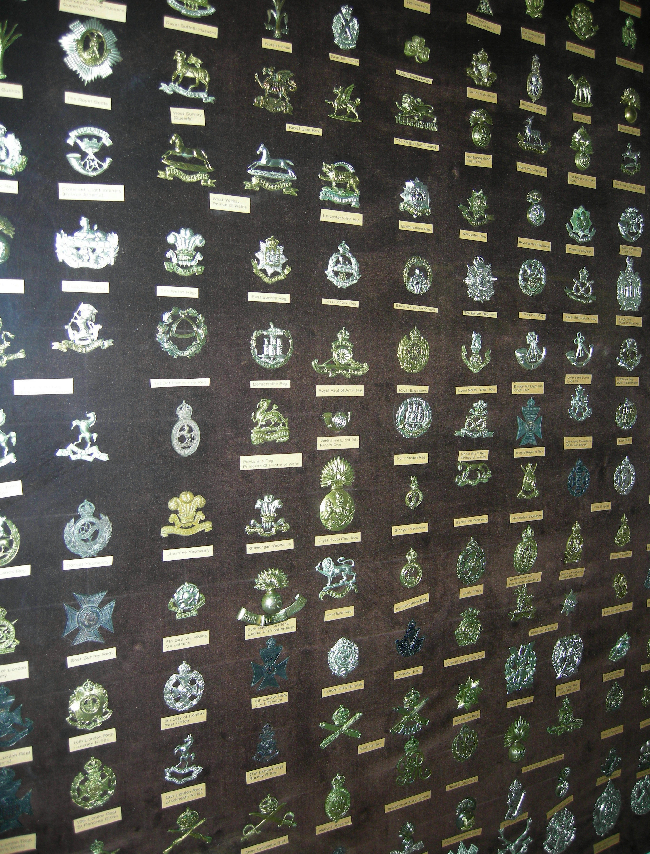 Display of UK military cap badges, in first floor corridor, Cliffe Castle Museum, Keighley, West Yorkshire, England. Full resolution of image allows you to read some of the labels.